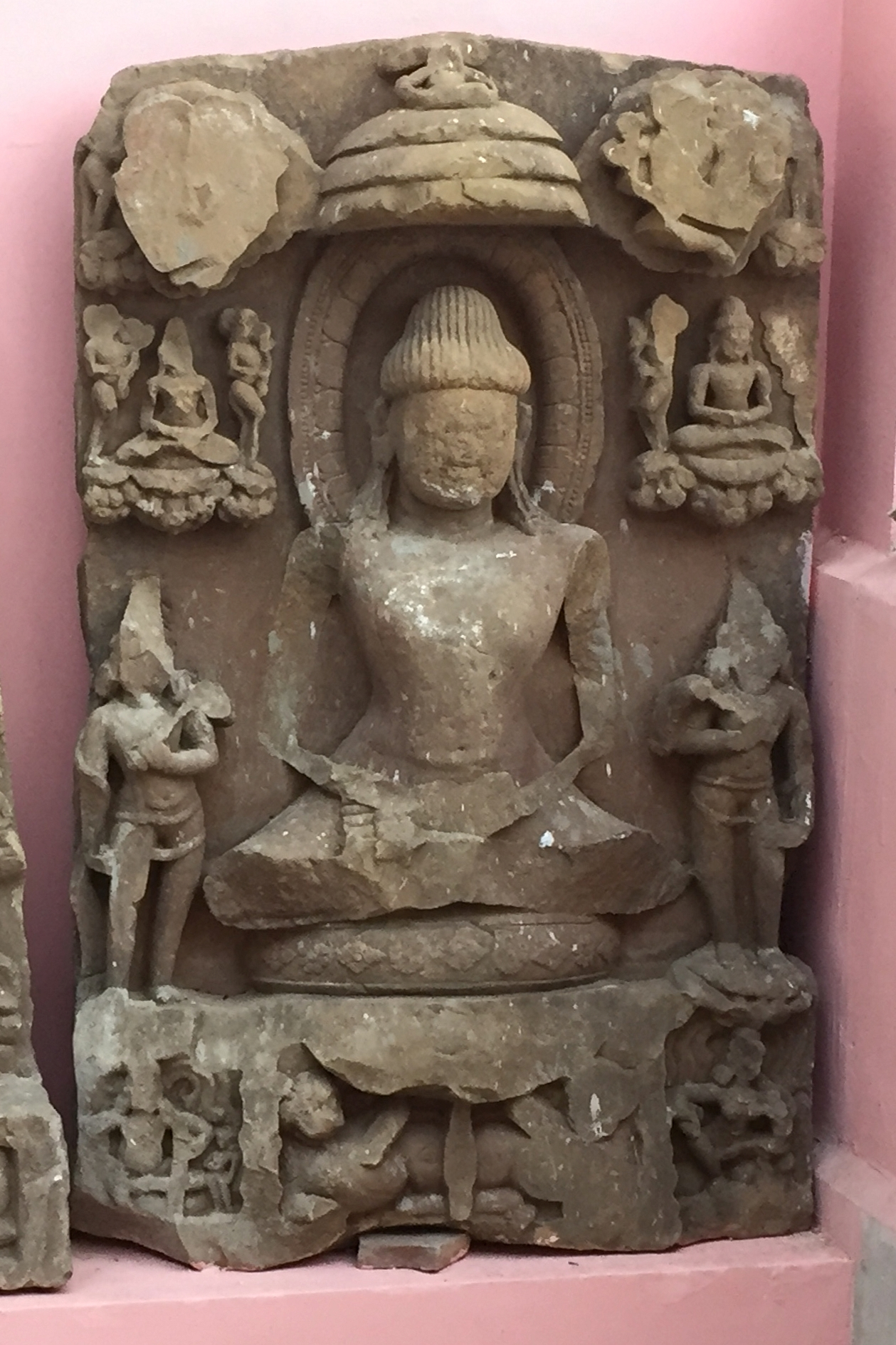 Ancient image at Badagaon Dhasan